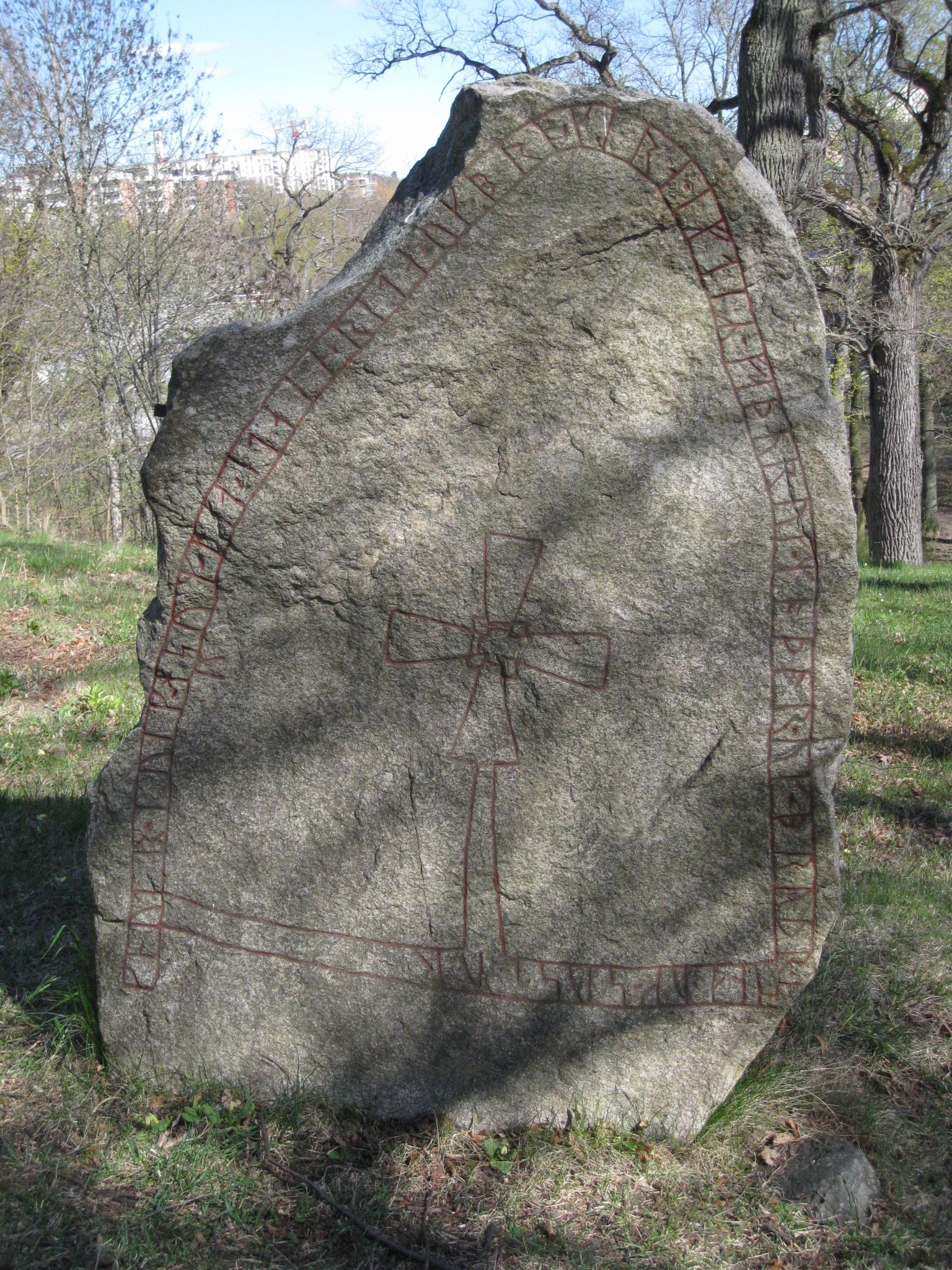 Runestone, Järfälla municipality, Sweden, "Upplands runinskrifter U92, Vibble", today at Jakobsbergs folkhögskola, Järfälla.